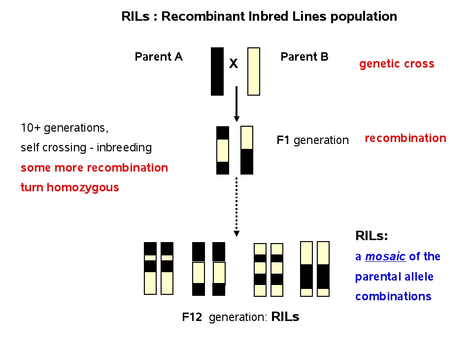 Recombinant Inbred Lines population creation in plants